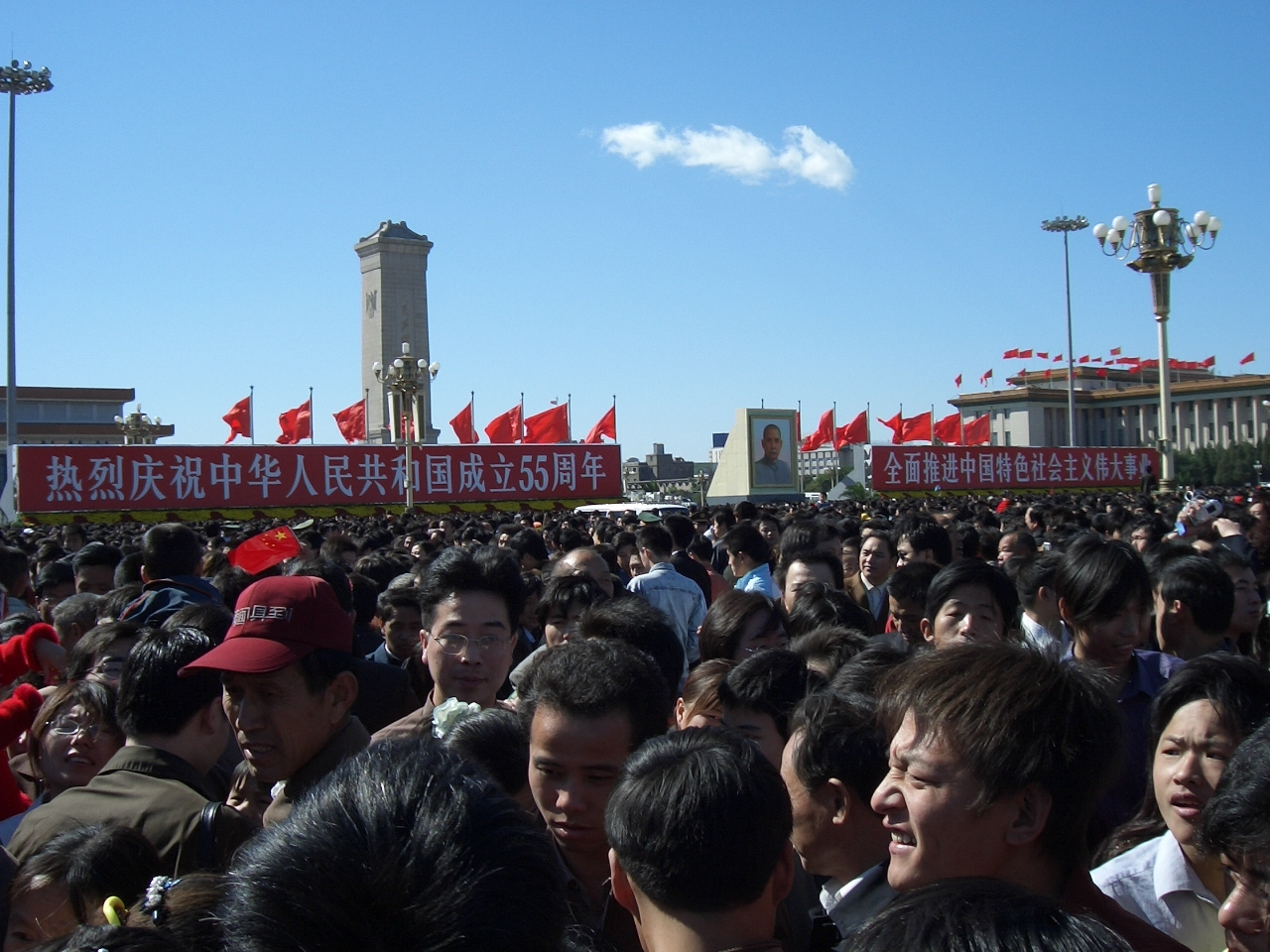 2004 PRC National Day at Tiananmen Square in Beijing, China. What a crowd!